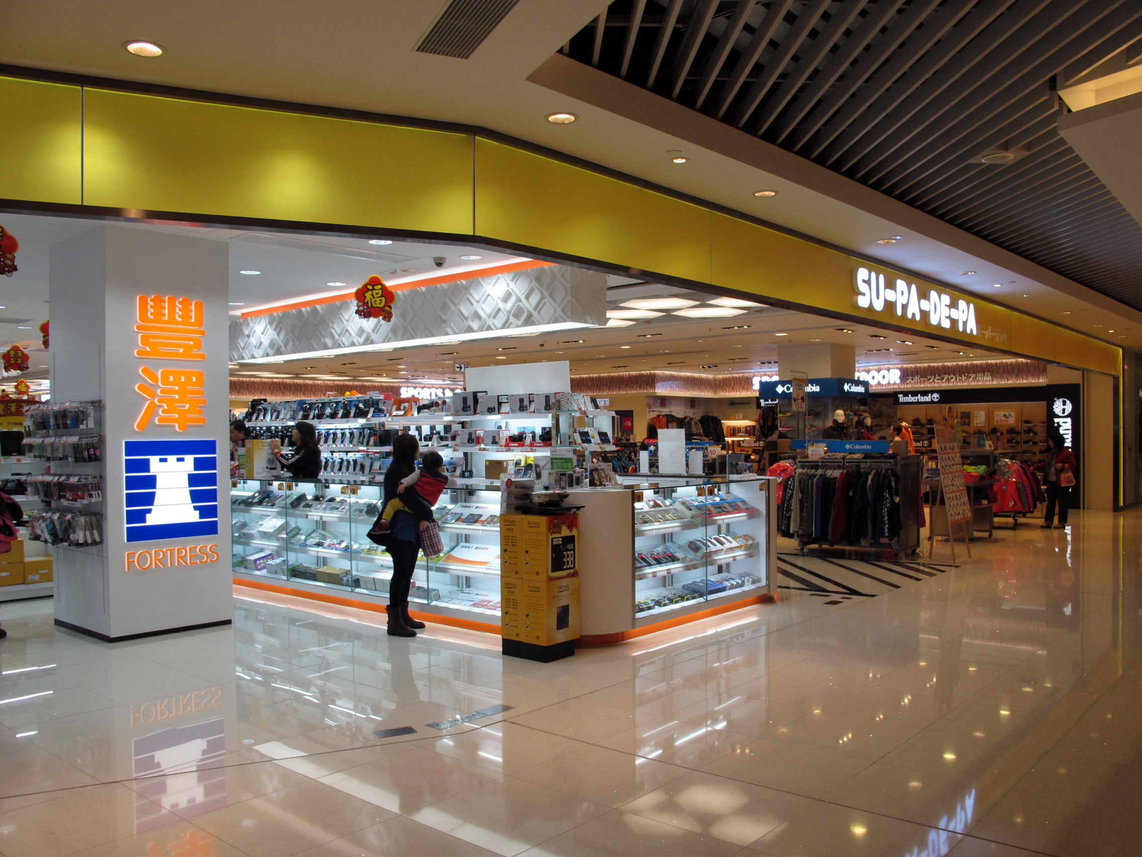 Domain Mall SU-PA-DE-PA& Fortess